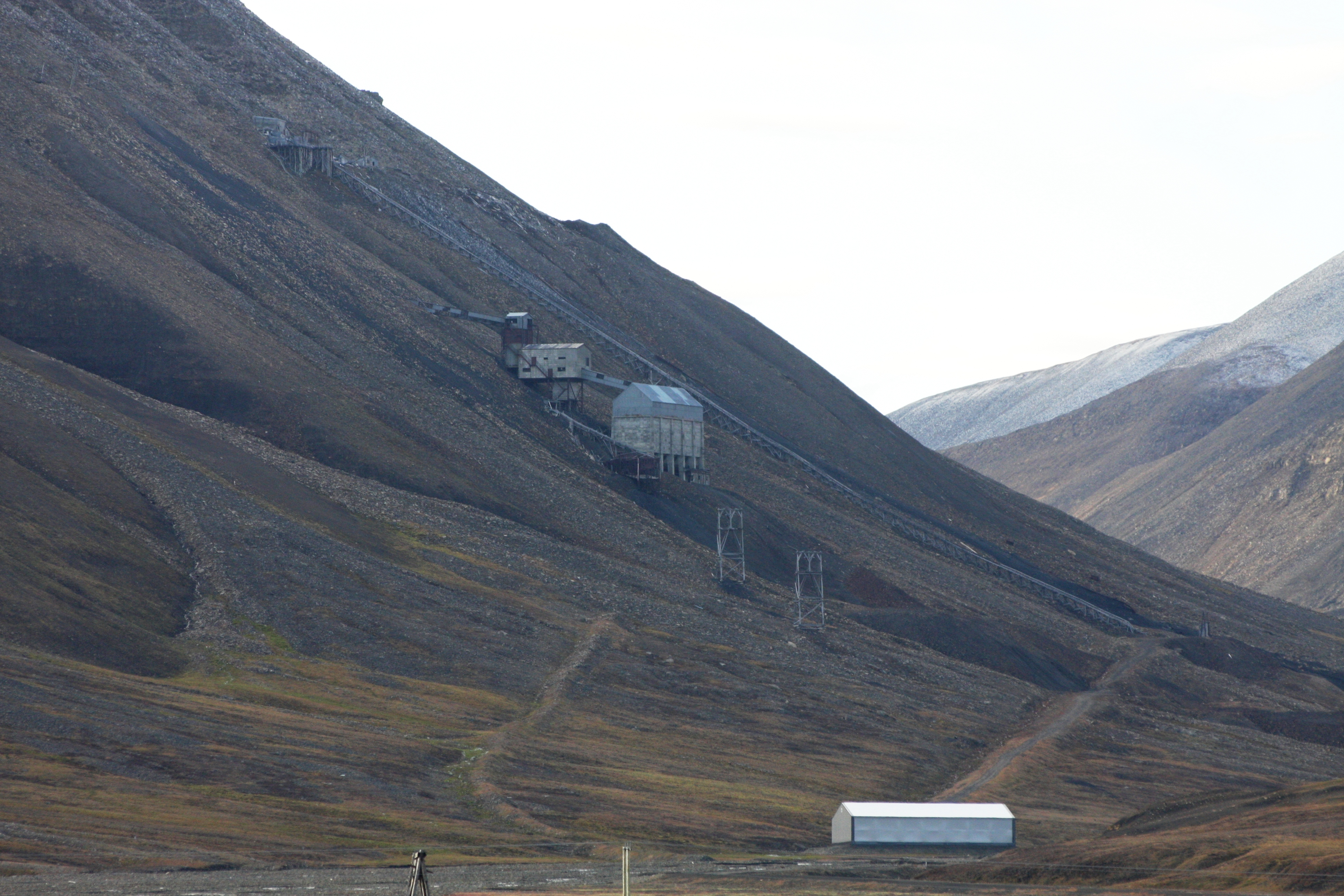 Mine No 5 (Gruve 5) in Adventdalen-Todalen, Spitsbergen